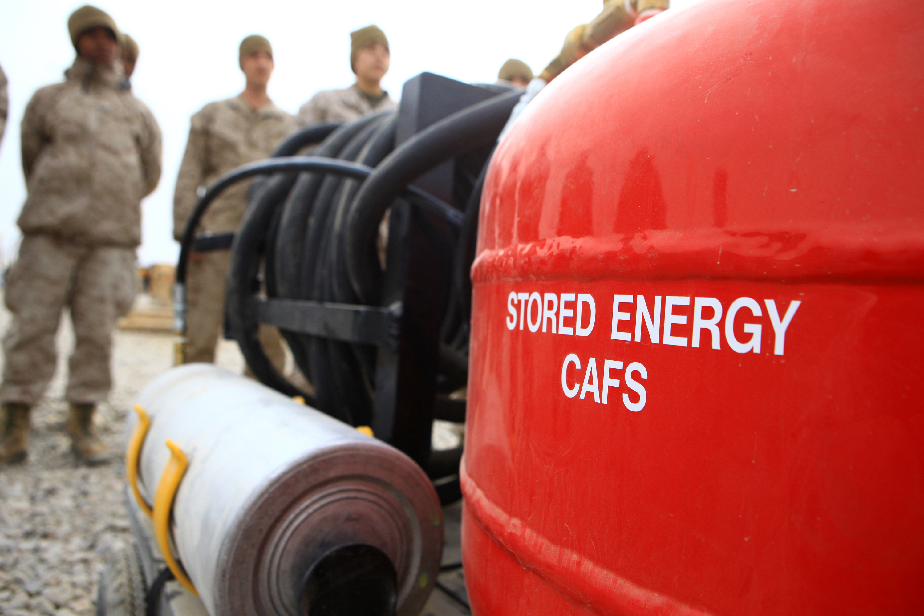 Marines with Marine Air-Ground Task Force Support Battalion 11.2, 2nd Marine Logistics Group (Forward), attend fire safety training at the Supply Management Unit lot aboard Camp Leatherneck, Afghanistan, Feb. 1. During the training they learned how to operate the compressed air foam system to put out fires. (U.S. Marine Corps photo by Cpl. Katherine M. Solano)